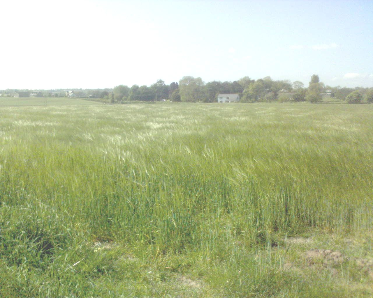 Open fields in Broomhedge